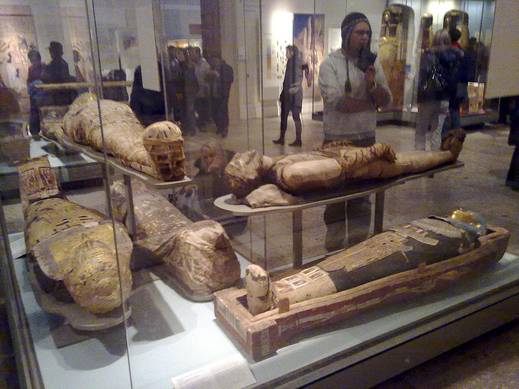 Some Egyptian mummies in the British museum.